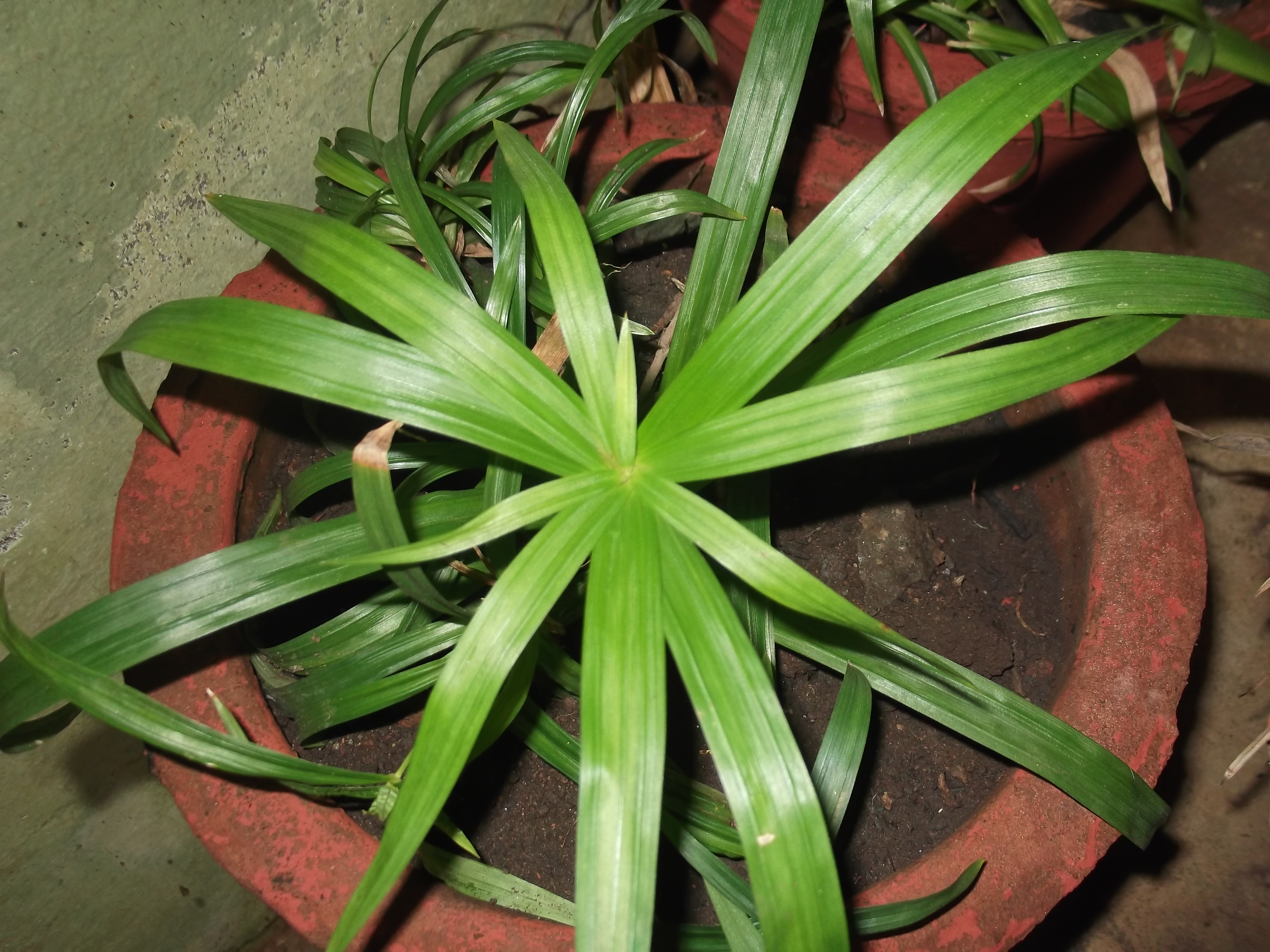 Broadleaf umbrella plant-bushy plant,sending out runners with suckers,pale brown spikelets.